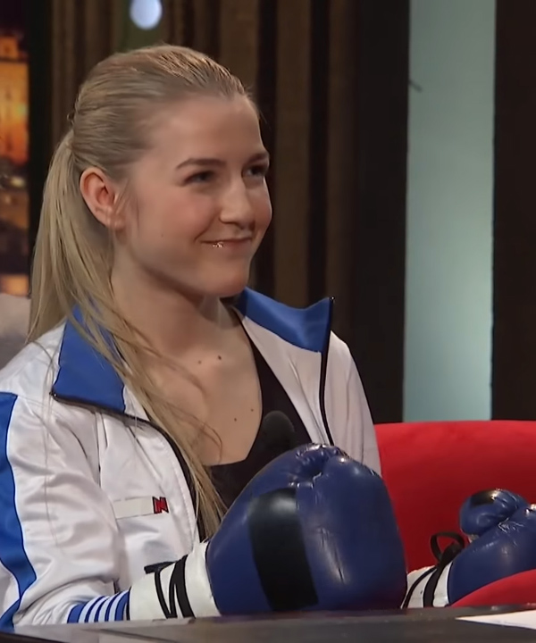 Czech boxer Fabiana Bytyqi, Atomweight World Champion